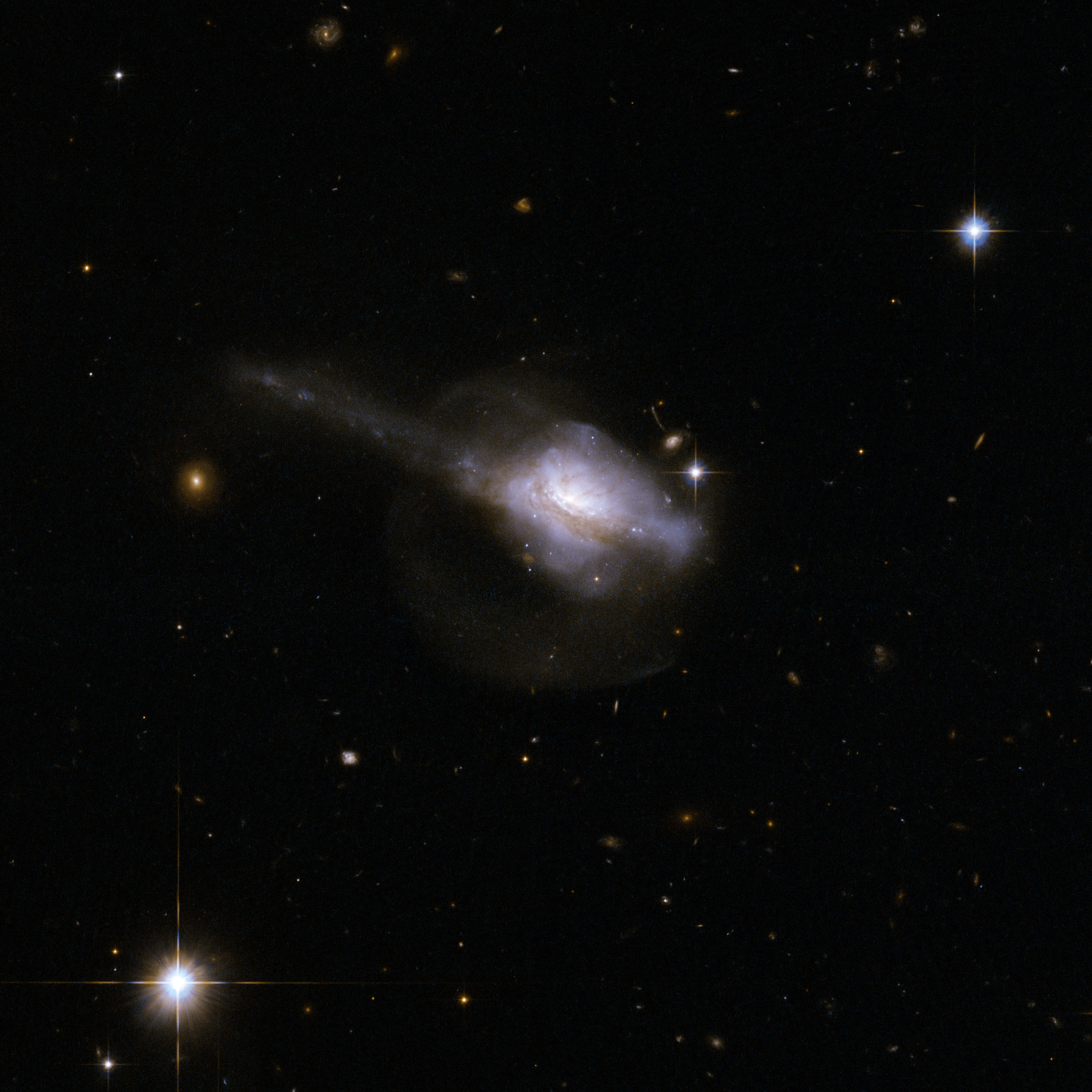 UGC 5101 is a peculiar galaxy with a single nucleus contained within an unstructured main body that suggests a recent interaction and merger. UGC 5101 is thought to contain an active galactic nucleus an extremely bright, compact core - buried deep in the gas and dust. A pronounced tail extends diagonally to the top-right of the frame. A fainter halo of stars surrounds the galaxy and is visible in the image, due to Hubble s ability to collect and detect faint light. This halo is probably a result of the earlier collision. UGC 5101 is about 550 million light-years away from Earth. This image is part of a large collection of 59 images of merging galaxies taken by the Hubble Space Telescope and released on the occasion of its 18th anniversary on 24th April 2008. About the objectObject nameUGC 5101Object descriptionInteracting GalaxiesPosition (J2000)09 35 51.67 +61 21 14.0ConstellationUrsa MajorDistance500 million light-years (150 million parsecs)About the dataData descriptionThe Hubble image was created using HST data from proposal 10592: A. Evans (University of Virginia, Charlottesville/NRAO/Stony Brook University)InstrumentACS/WFCExposure date(s)January 28, 2002Exposure time38 minutesFiltersF435W (B) and F814W (I)